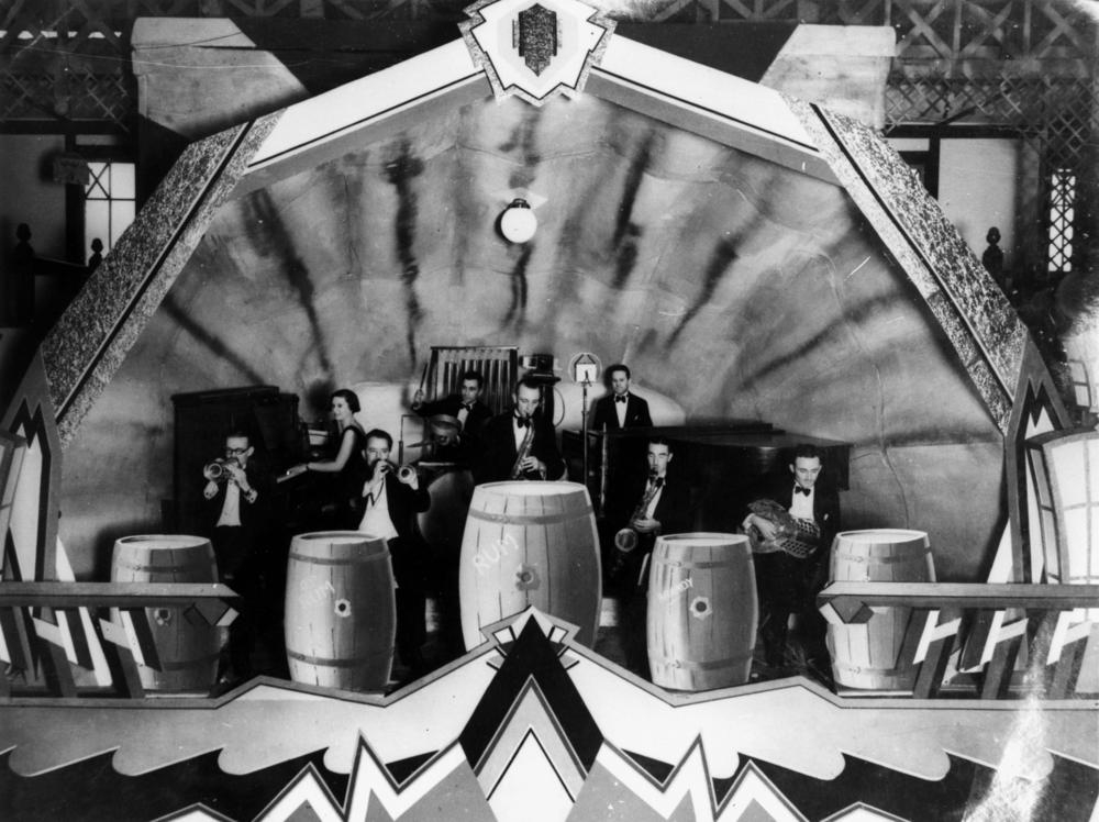 Creator: Unidentified Location: Brisbane, Queensland Description: The band is performing on stage and features a female pianist. Other members play trumpets, drums and saxophones. Large kegs appear in the foreground. View this image at the State Library of Queensland: Information about State Library of Queensland’s collection